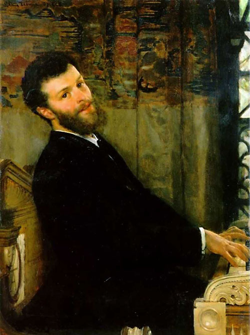 Portrait of British baritone, conductor, and pianist Sir George Henschel (Ismoa Georg Henschel) (1850-1934) at the piano of Alma-Tadema, Townshend House.